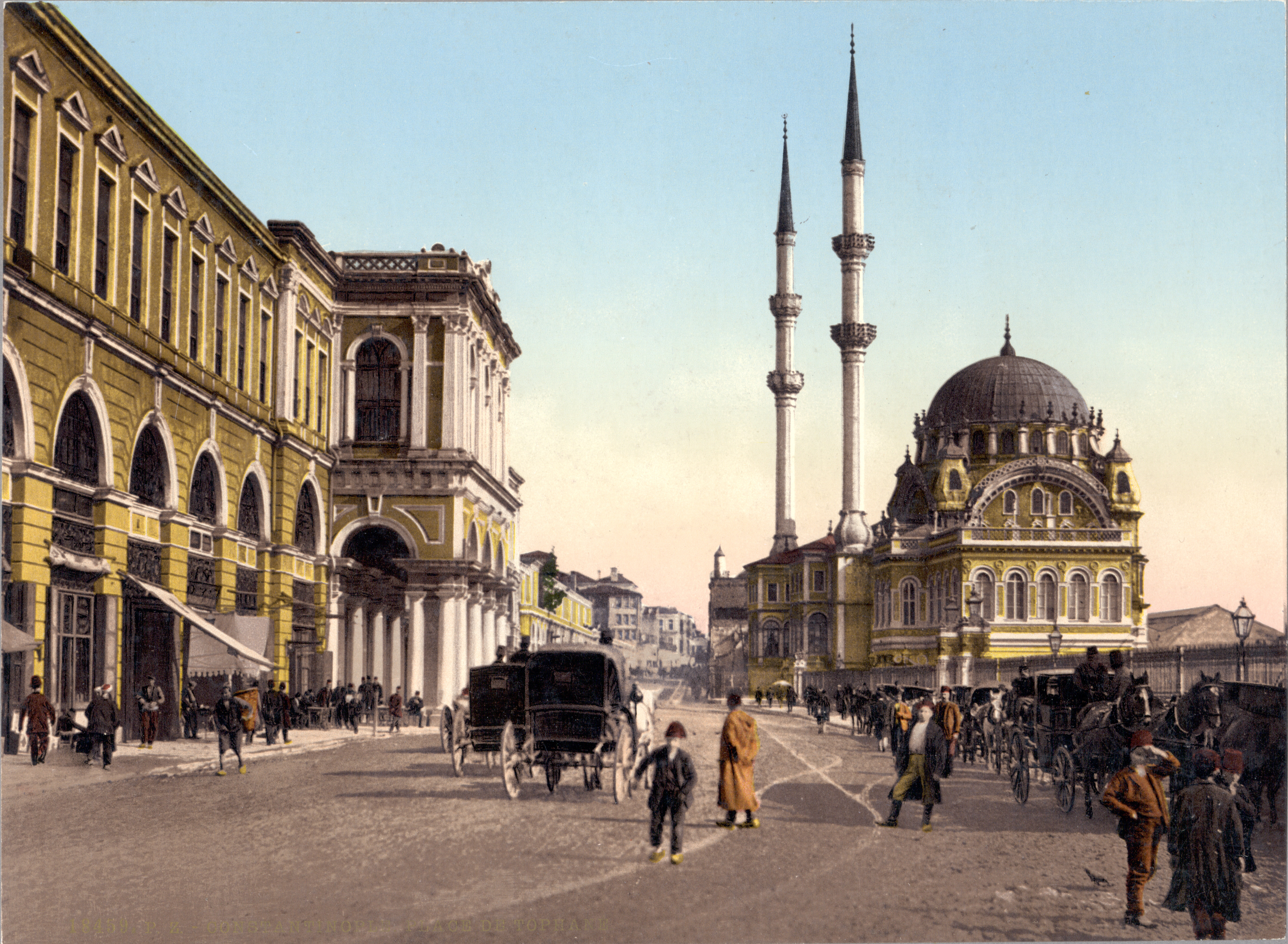 Place de Tophane, Constantinople [i.e., Istanbul, Turkey]